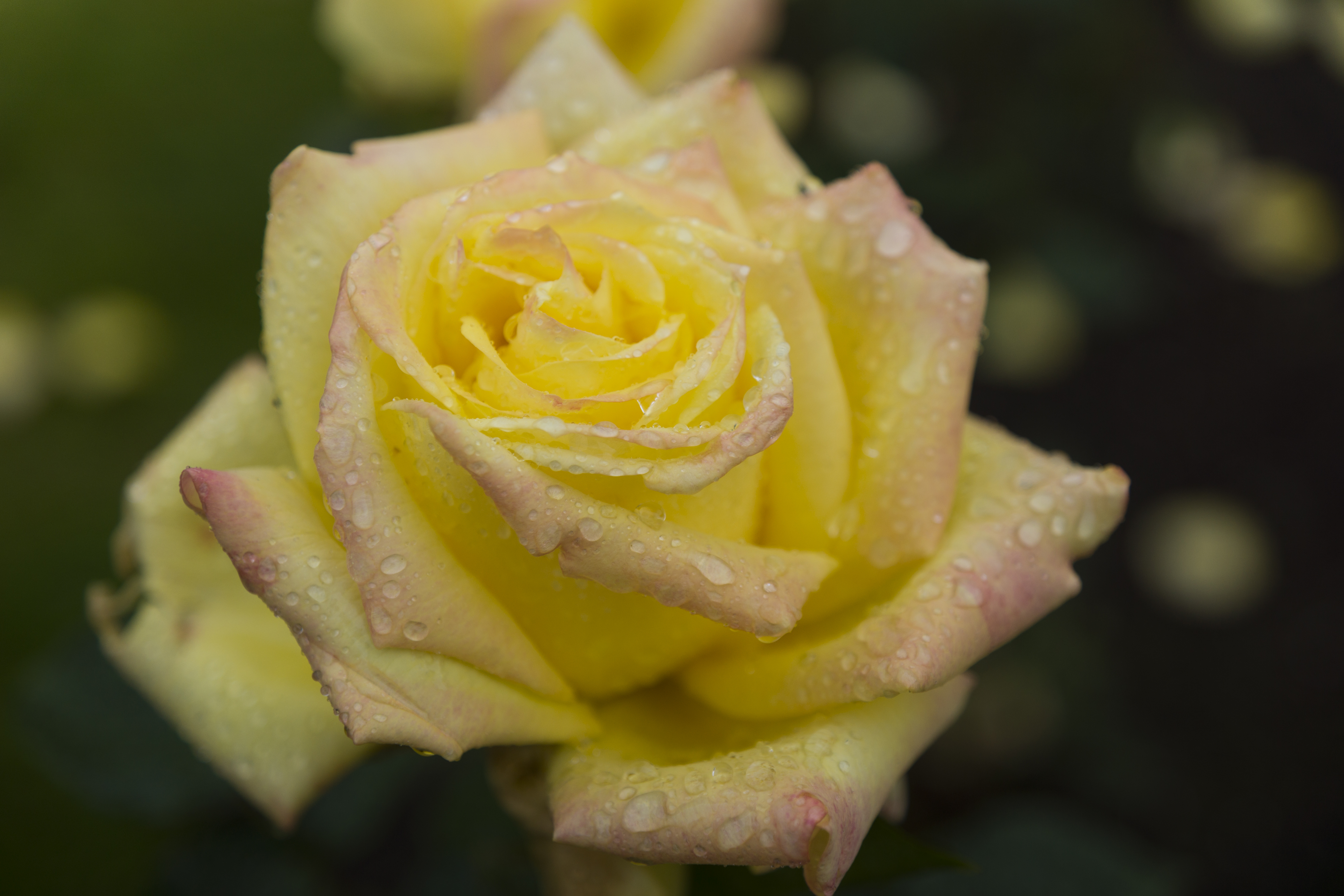 It was raining this morning so I went to the Dublin Botanic Gardens to capture the roses in the rain.